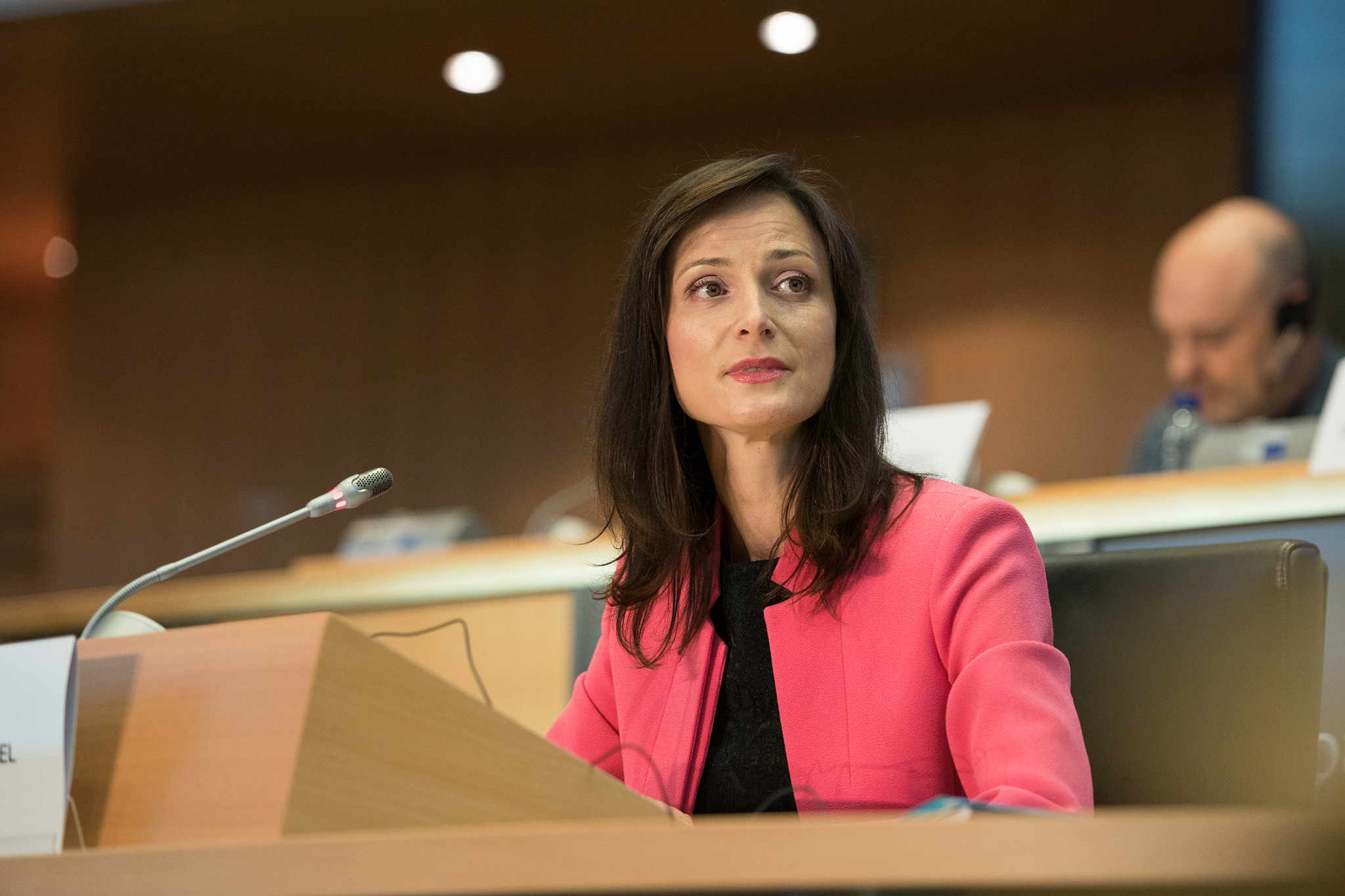 Before the European Parliament can vote the new European Commission led by Ursula von der Leyen into office, parliamentary committees will assess the suitability of commissioners-designate. On 23-26 May, more than 200,000,000 people in 28 EU countries went to the polls to elect members of the European Parliament, giving them a strong democratic mandate, including voting into office the new European Commission and examining the competencies and abilities of its commissioners-designate. Elected members of the European Parliament will also listen to their ideas and will assess their willingness to take concrete actions on the issues that Europeans care about. Each candidate commissioner is invited for a live-streamed, three-hour hearing in front of the committee or committees responsible for their proposed portfolio. The hearings will take place between Monday 30 September and Tuesday 8 October. This photo is free to use under Creative Commons license CC-BY-4.0 and must be credited: "CC-BY-4.0: © European Union 2019 – Source: EP". No model release form if applicable. For bigger HR files please contact: webcom-flickr(AT)